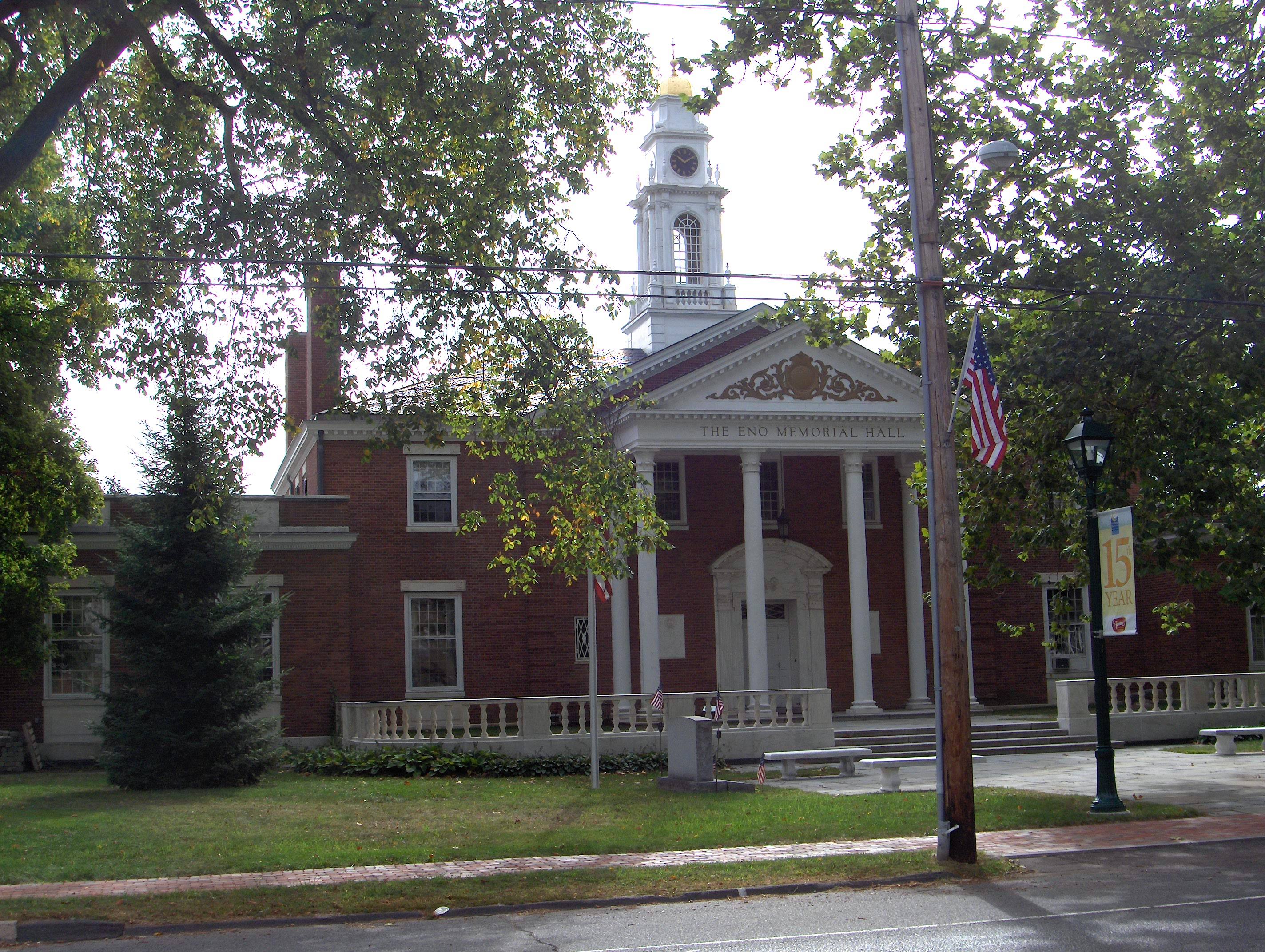 Eno Memorial Hall, Simsbury, Connecticut. A Colonial Revival building built in 1932. Used as the town and community center for many years, still used as a community center.